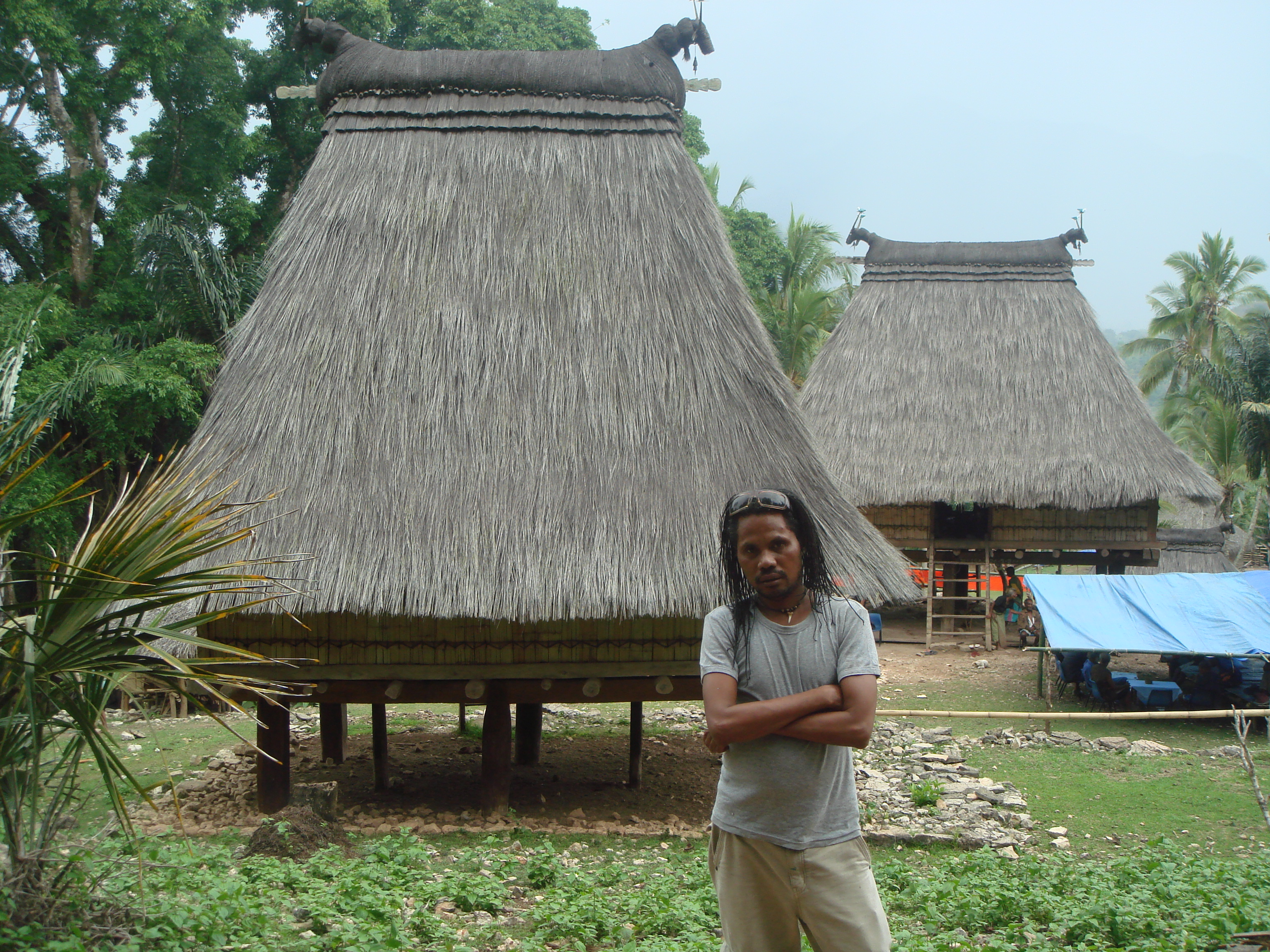 Holy house of Borulaisoba in Ahabu'u